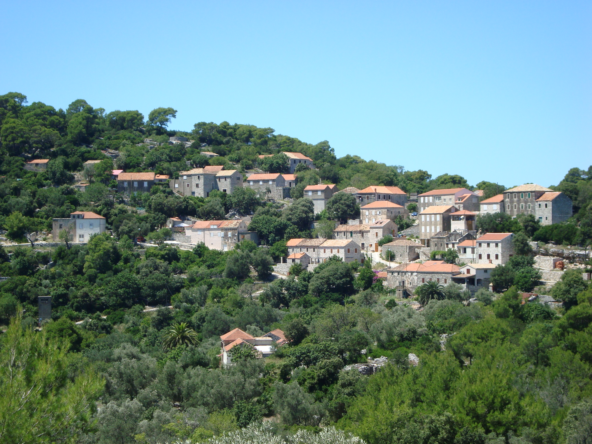 Goveđari, the first permanent inhibited place on the west side of the island of Mljet, Croatia